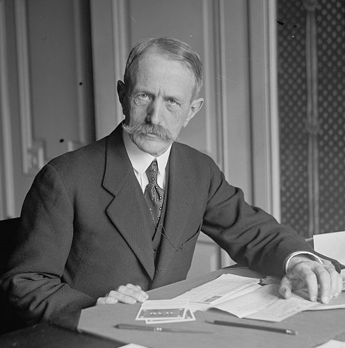 French diplomat and politician Émile Daeschner (1863-1928)